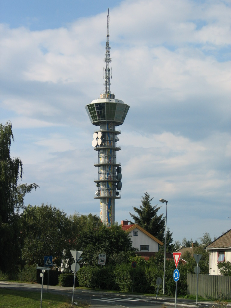 Tyholttårnet TV and radio tower in Trondheim